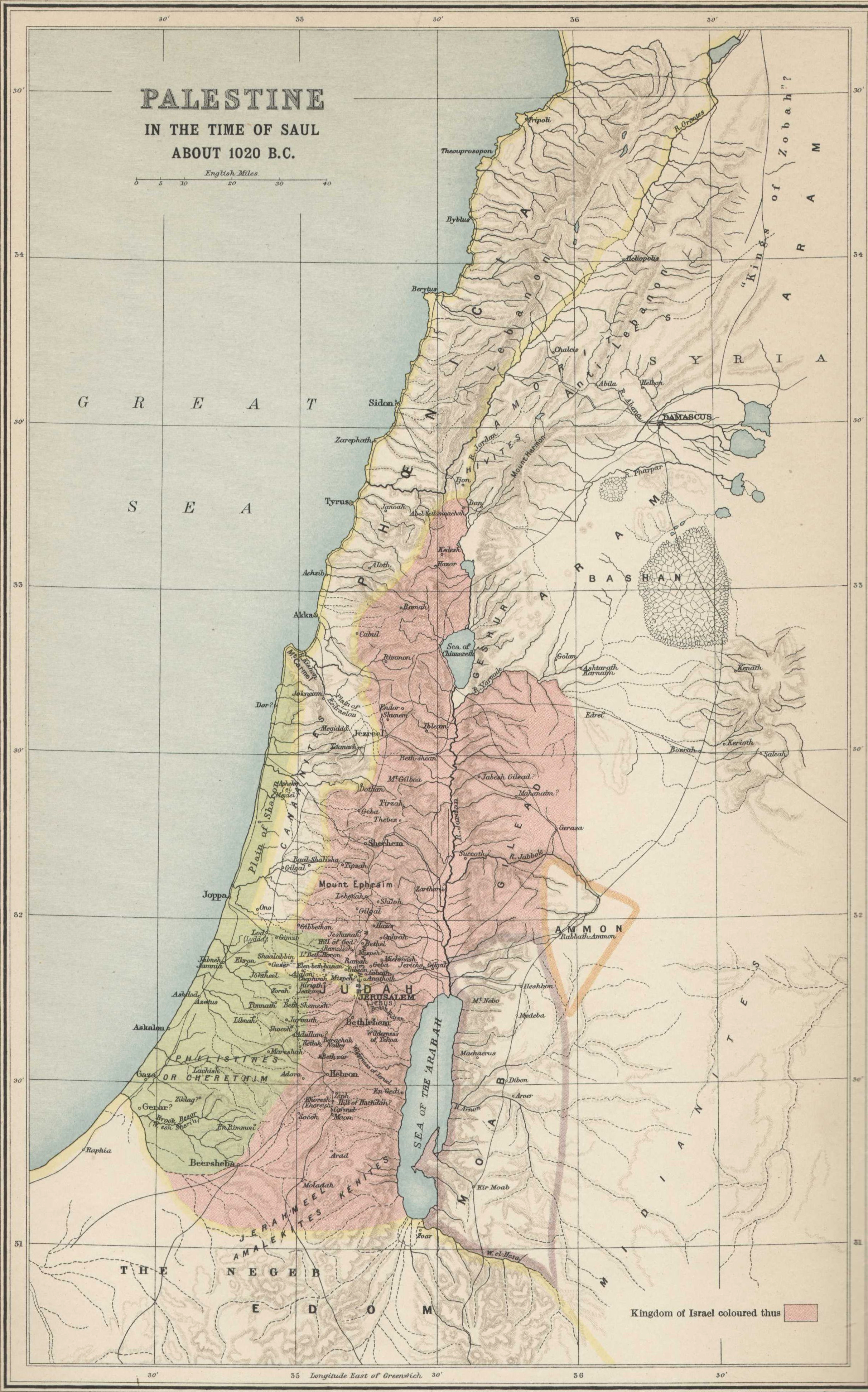 Palestine 1020BC; Atlas of the Historical Geography of the Holy Land by George Adam Smith in 1915